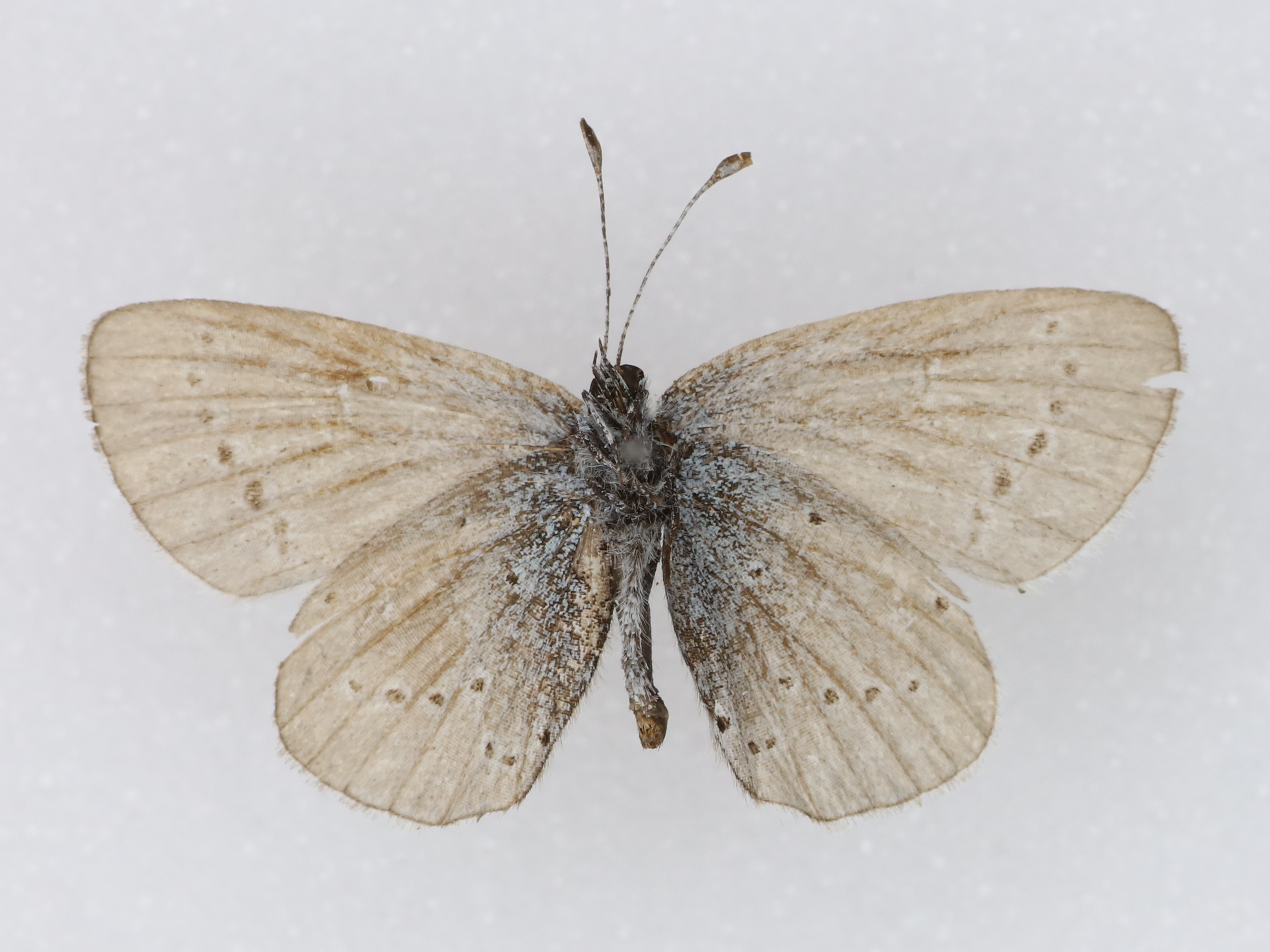 A ventral photograph of Cupido minimus pilyachuch, Gorbunov & Kosterin, 2007, a Paratype